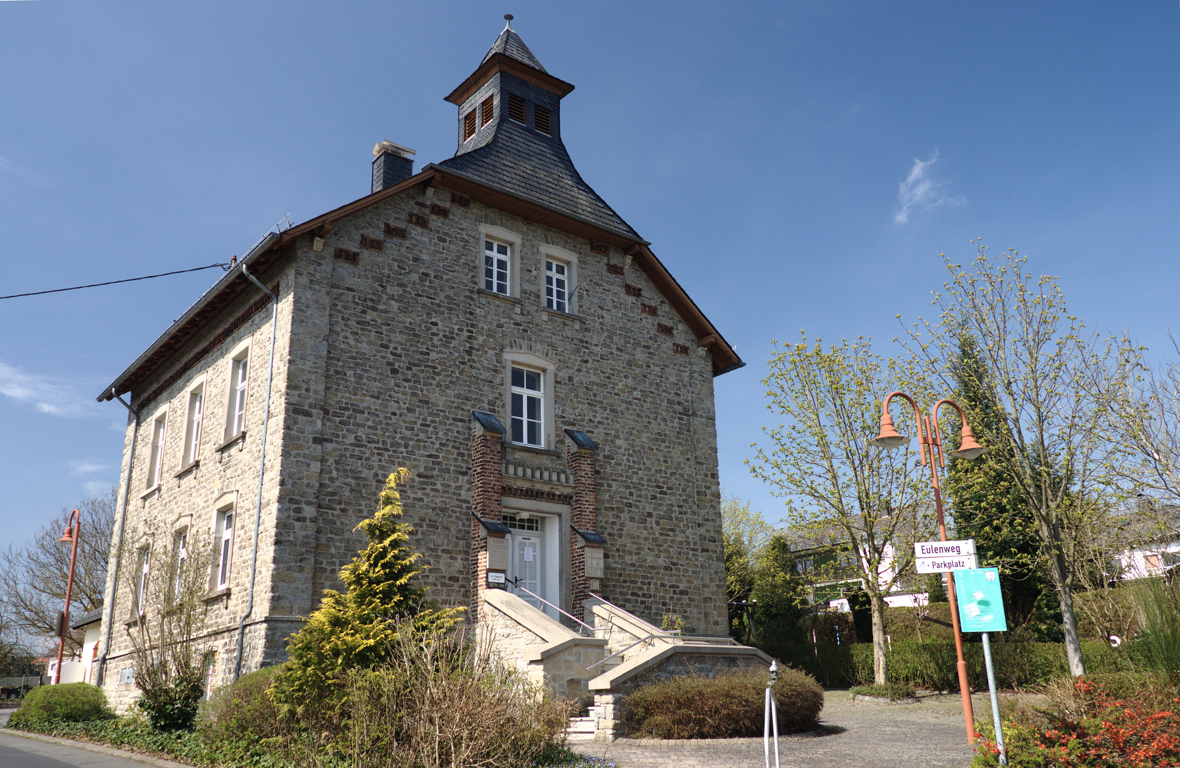 Former school, errected approx. 1900, cultural heritage. Location: Schlenkstraße 3, Deesen, Westerwald, Germany